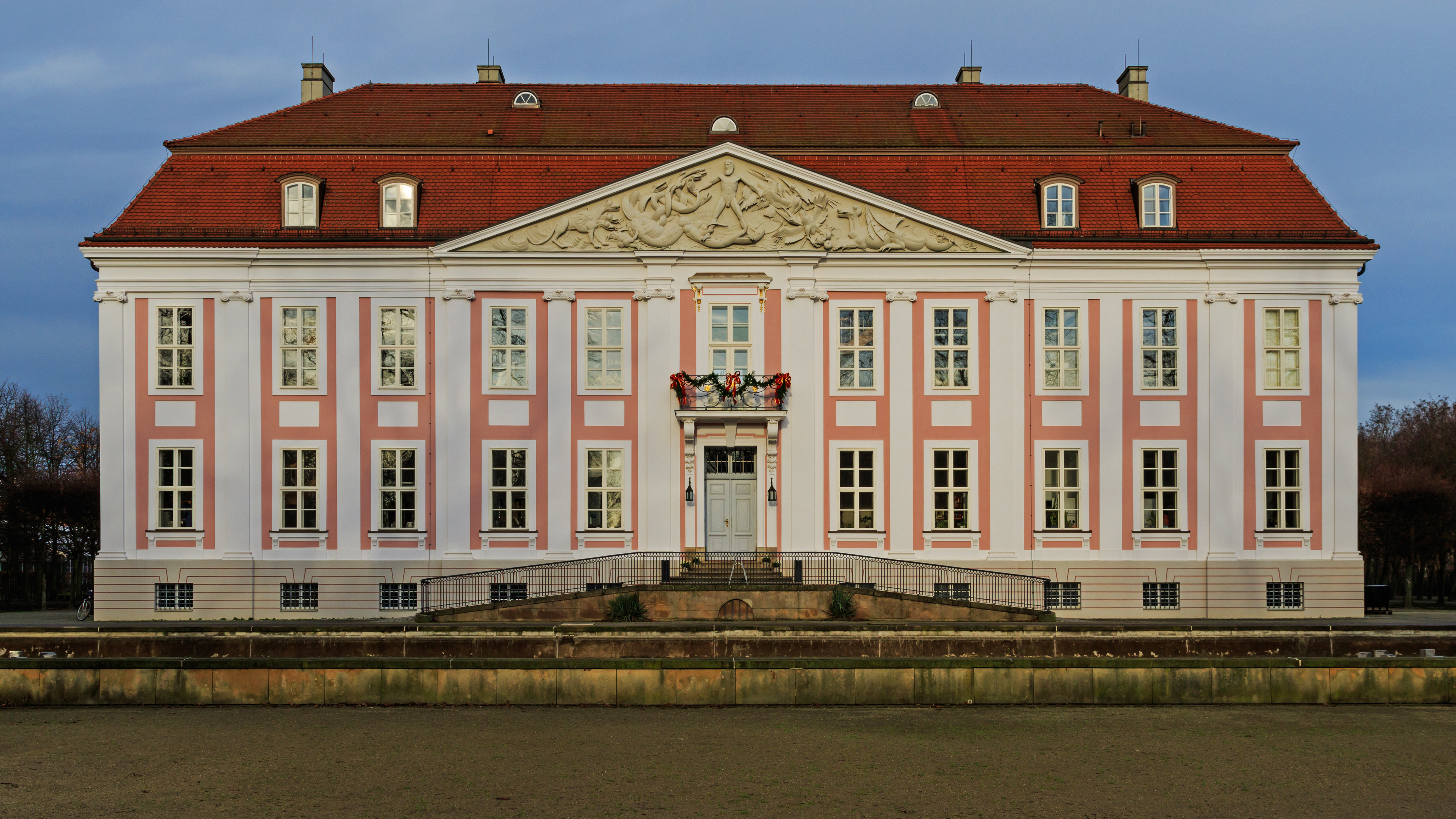 The Friedrichsfelde manor in Berlin